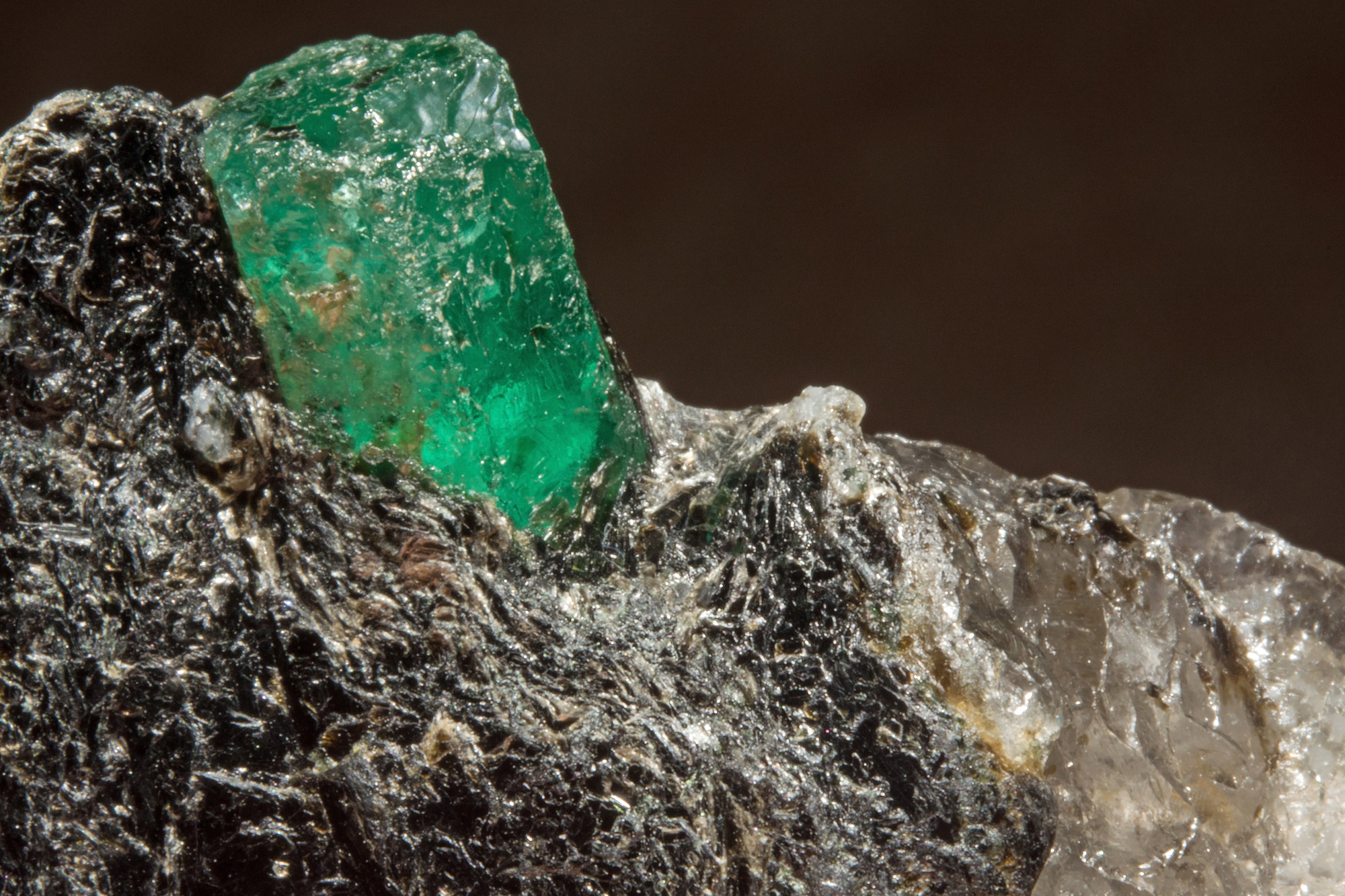 beryl var. emerald, mica var. phlogopite, quartz : Carnaiba Mine District, Pindobaçu, Campo Formoso ultramafic complex, Bahia, Brazil